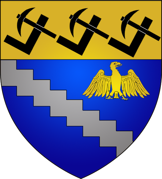 Coat of arms of the municipality of Mertzig, Luxembourg